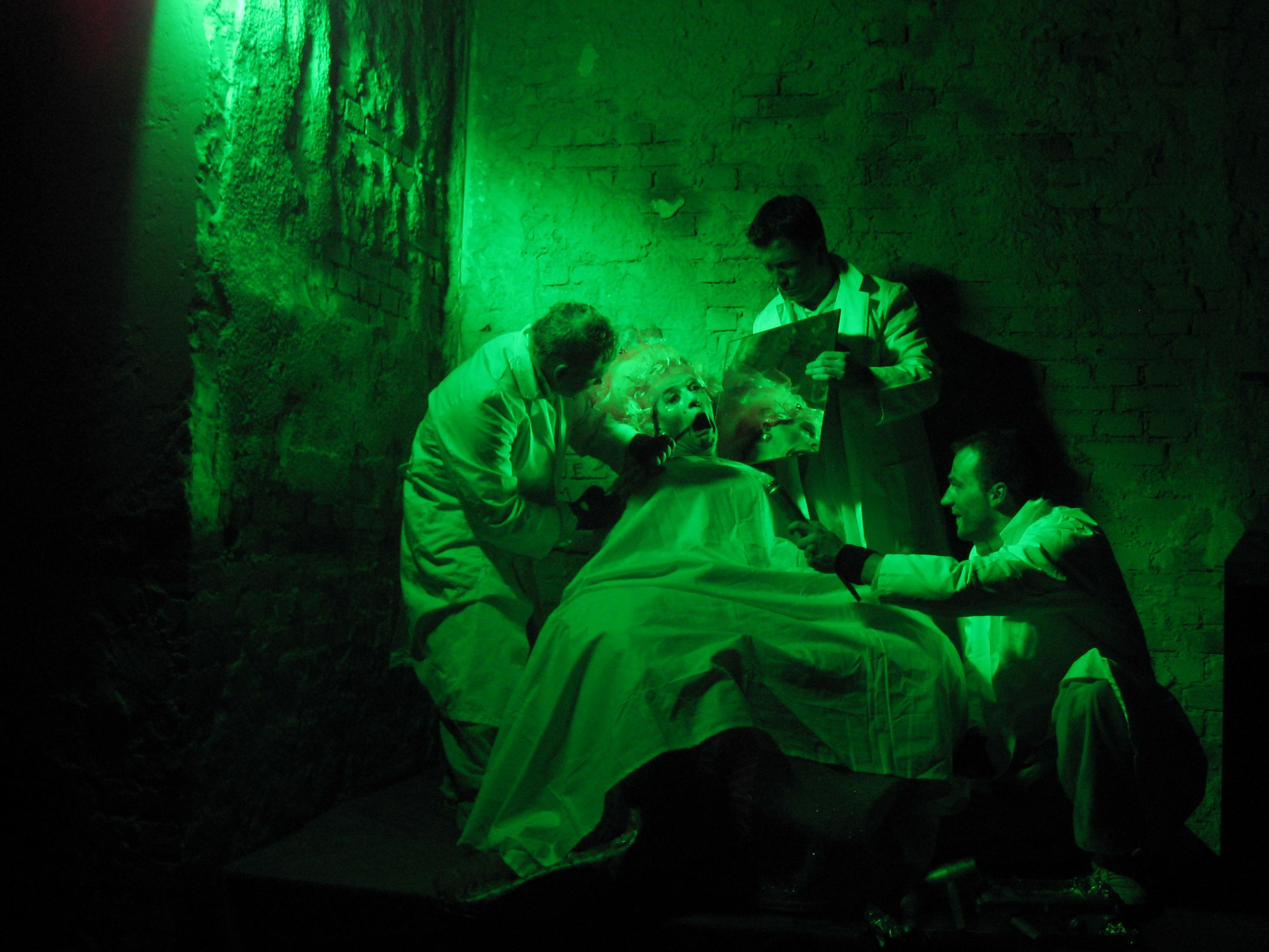 Production 'Love me tender' after Les amours de Ragonde of Jean Joseph Mouret with Robert Eller as Ragonde & breakdancer of the Bounce Dance Company during rehearsal for the Performance at the Great Hall of Z-Bau in Nuremberg in March 2008